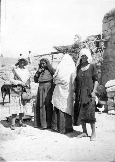 Photograph of the Finnish ethnologist Hilma Granqvist (1890–1972) in Palestine, in the village of Artas, during her expedition.